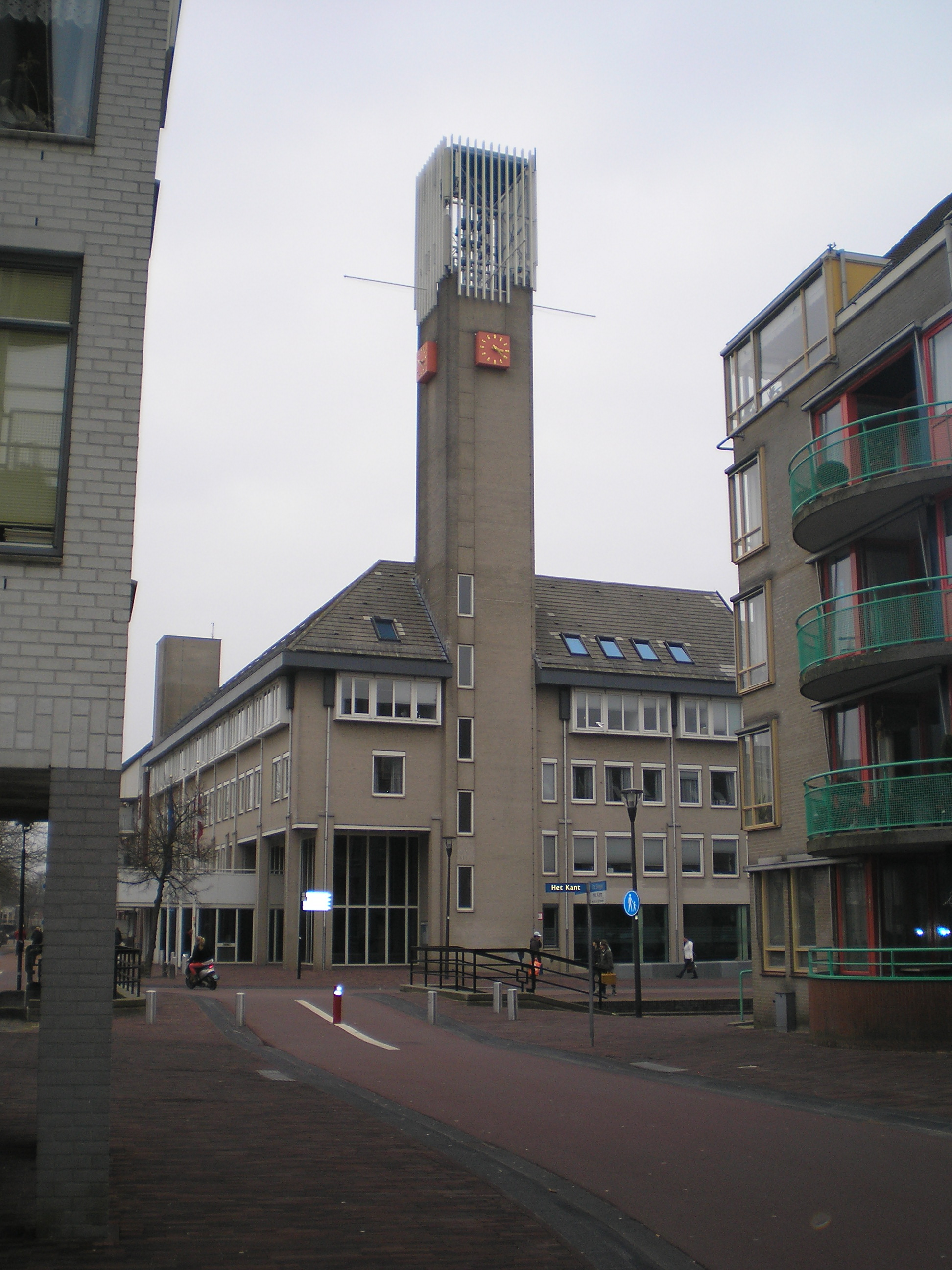 Town Hall on the Onderdoor 25 in Houten in the Netherlands